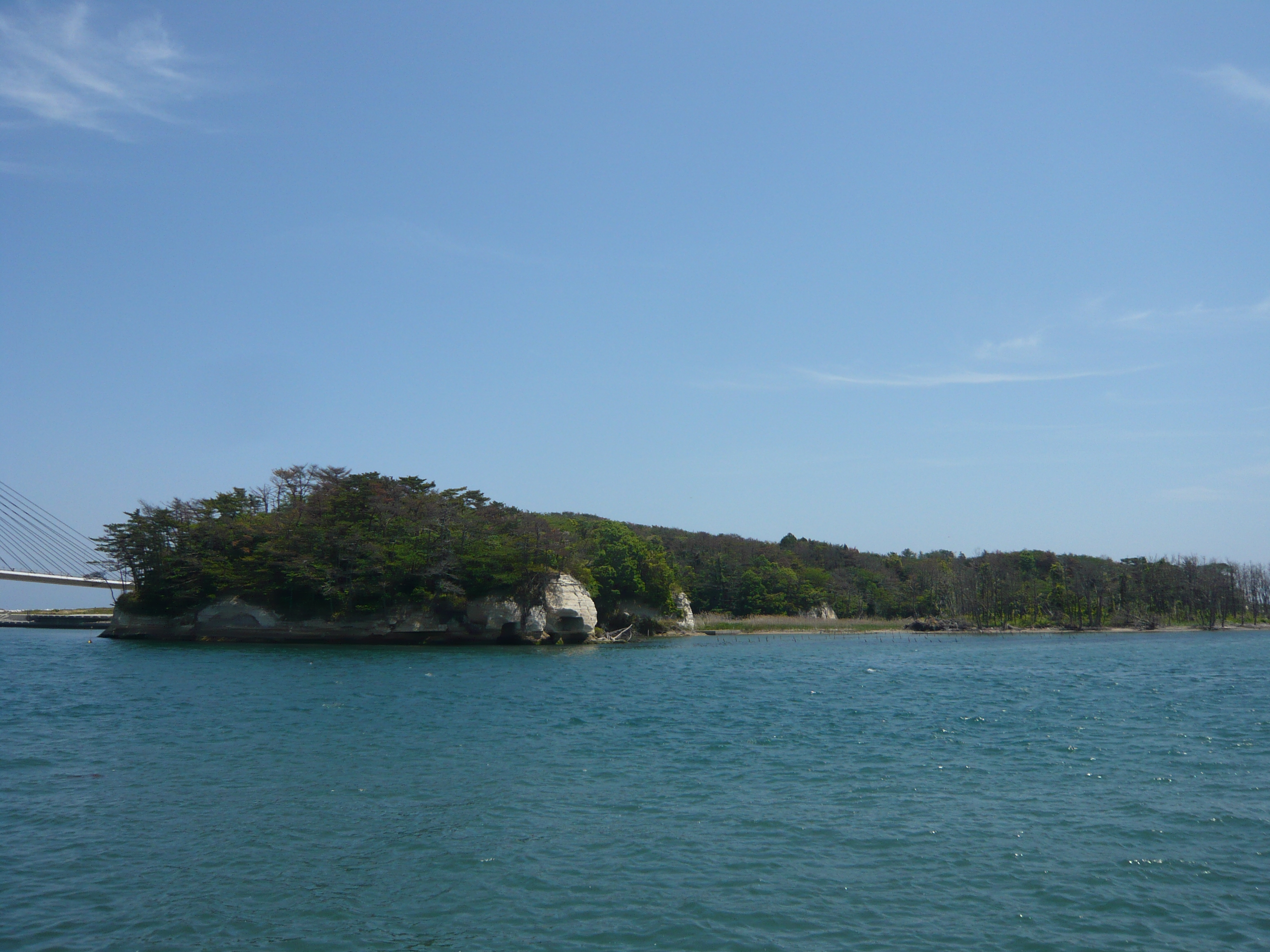 Matsukawaura lagoon in Soma City, Fukushima Prefecture, Japan